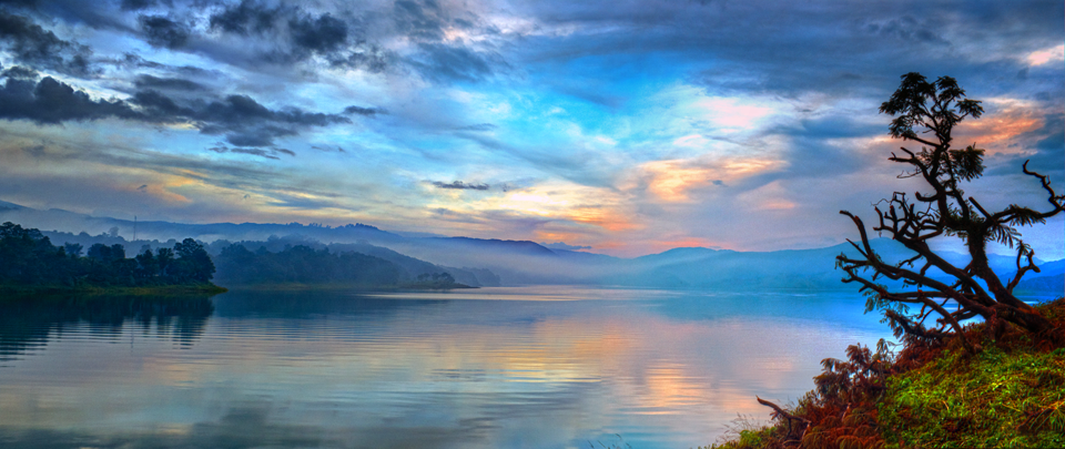 Umiam Lake is a reservoir located in the hills 15 km to the North of Shillong in the state of Meghalaya, India. It was created by damming the Umiam river in the early 1960s. The principal catchment area of the lake and dam is spread over 220 square km.